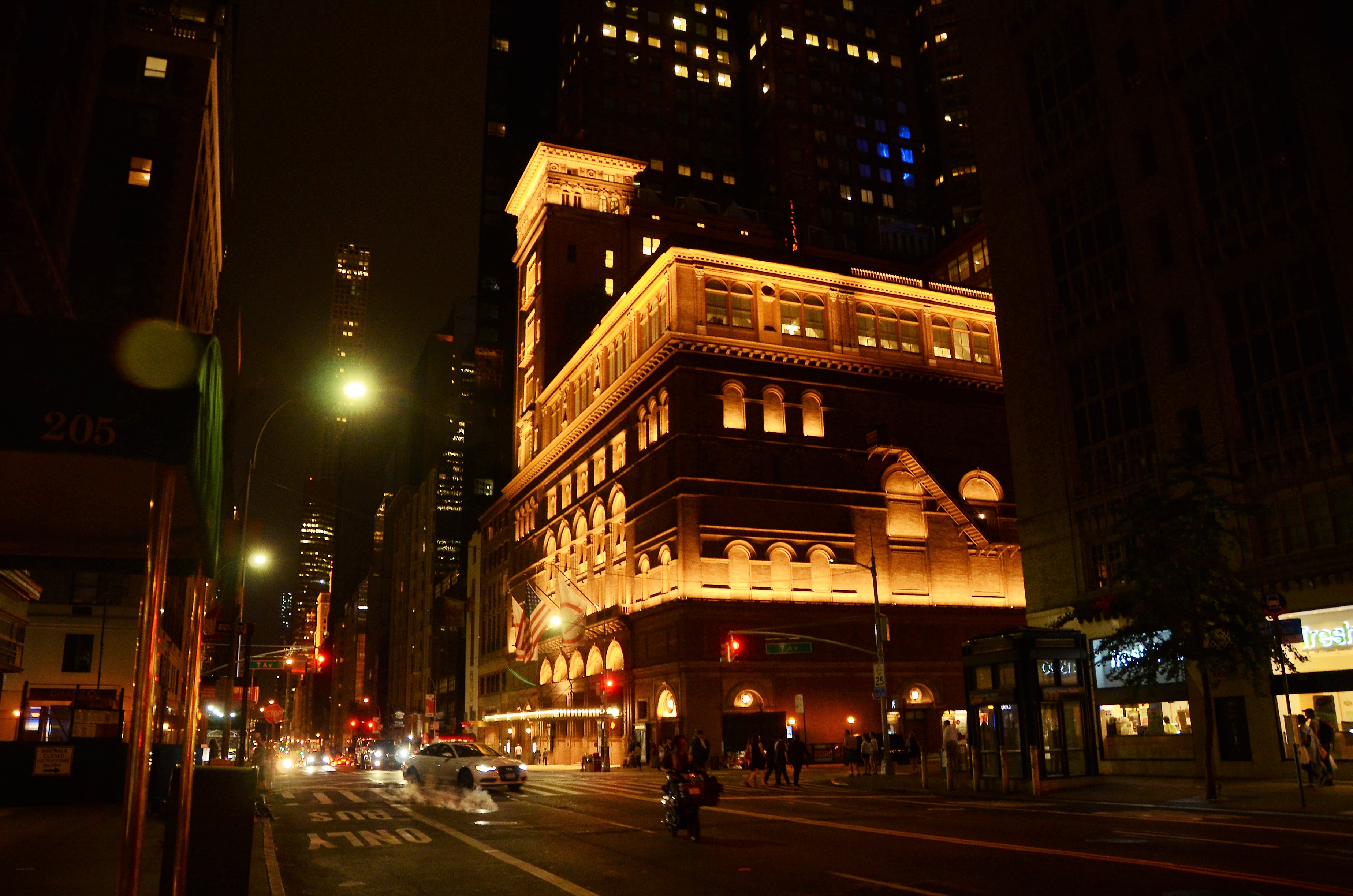 This Is a nice night picture of Carnegie Hall and street scene. The hall is VERY HISTORIC with MANY famous musicians having performed there.